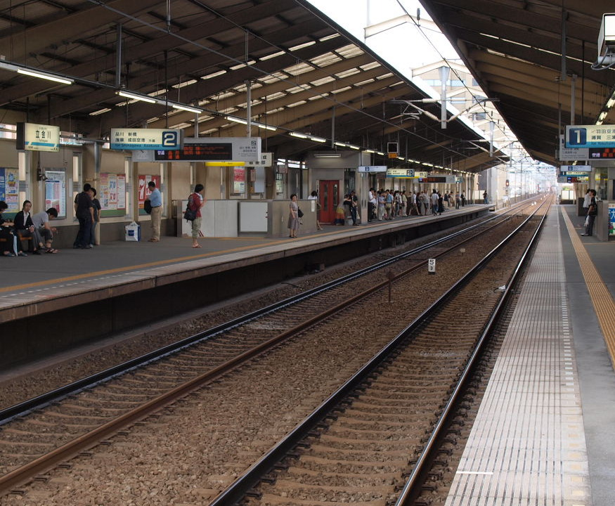 Tachiaigawa station platforms